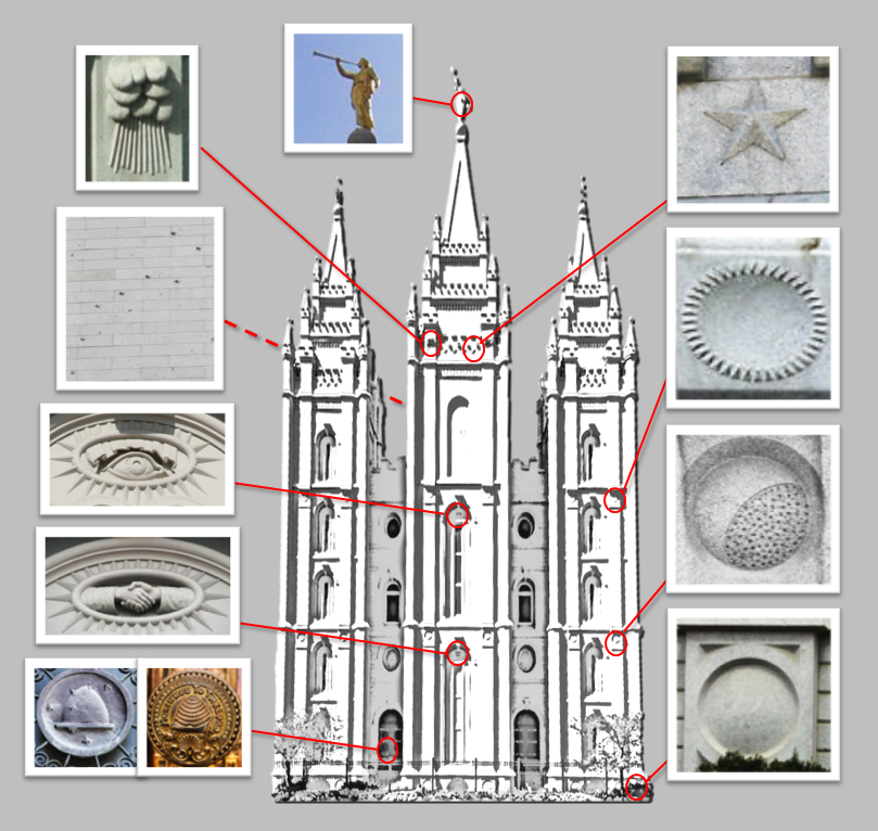 Infographic of locations and details of the Salt Lake Temple exterior symbols